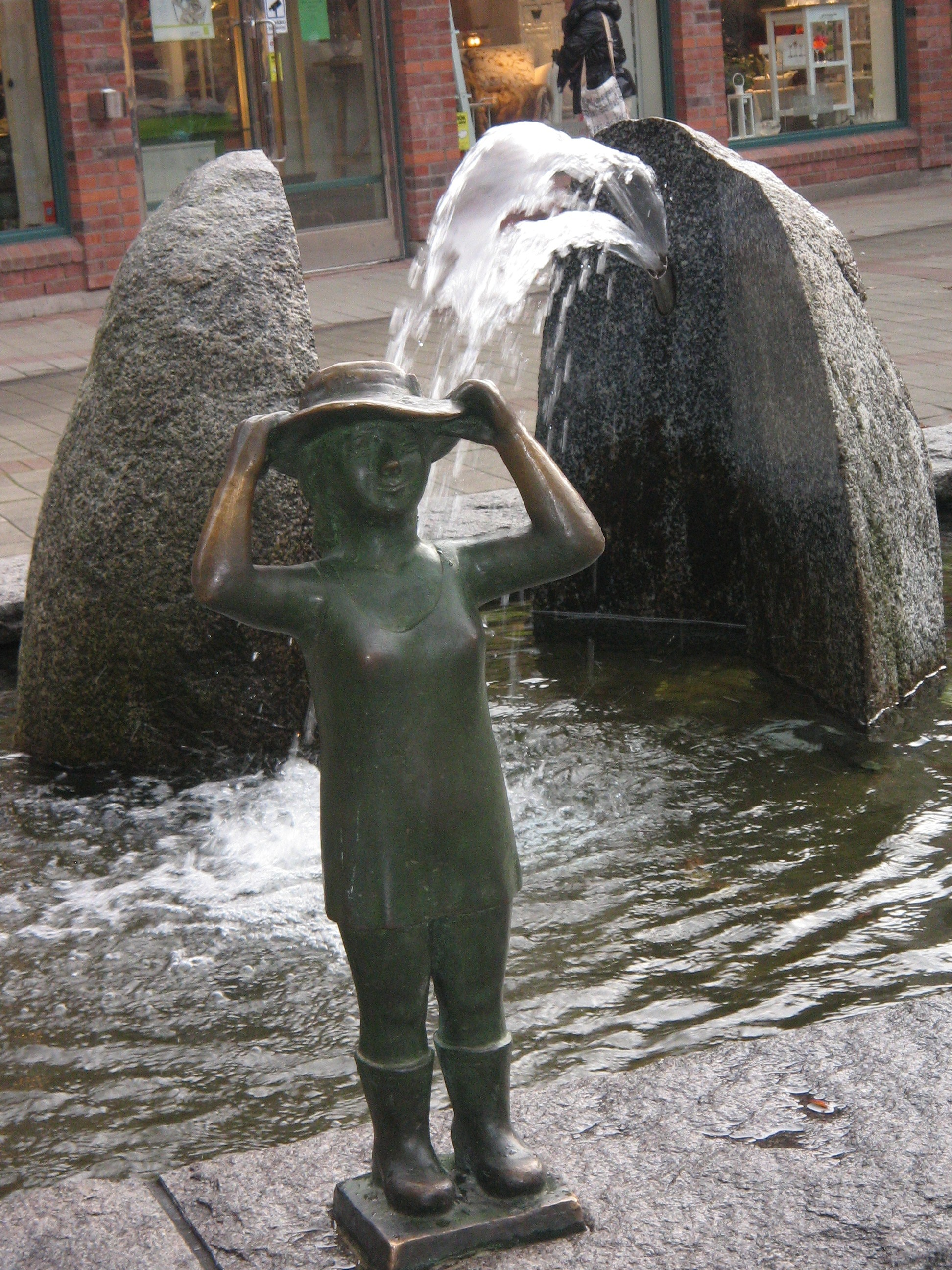 "Människan i centrum", skulptur av Sven Lundqvist i Lidingö Centrum